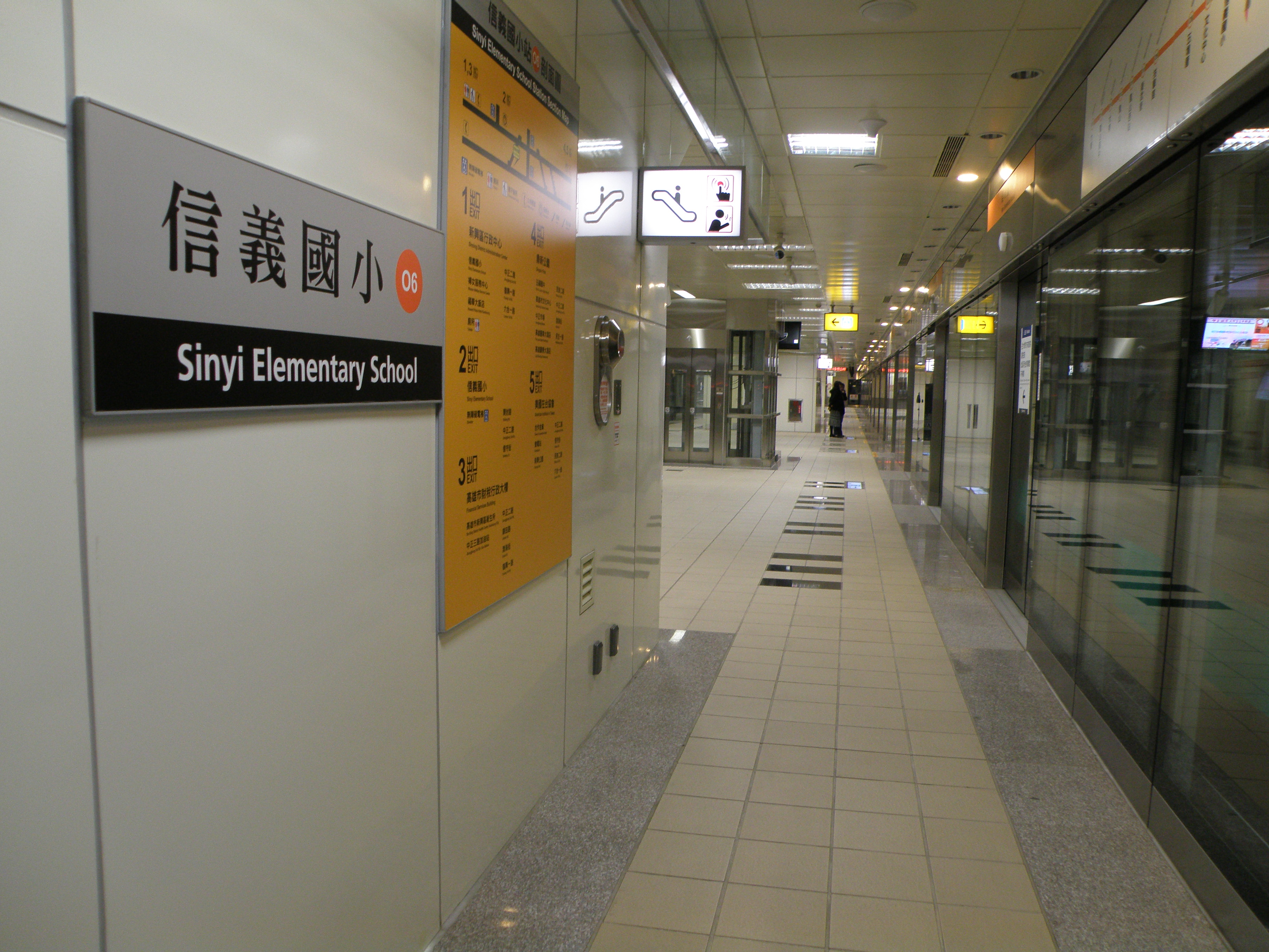 Platform of Sinyi Elementary School Station, Kaohsiung Mass Rapid Transit.